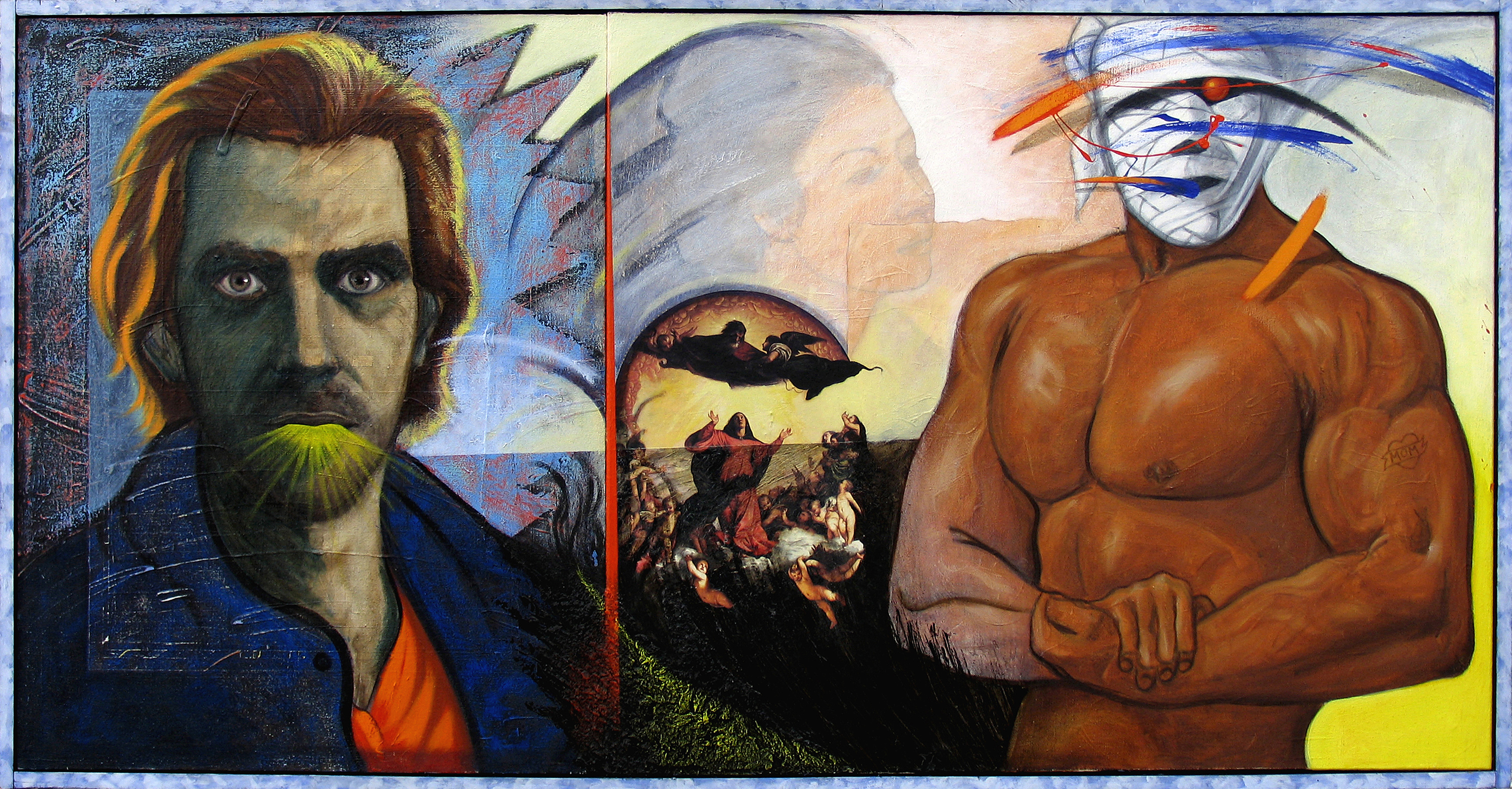 "The Power" by Jerry De La Cruz (b 1948, Denver, CO), oil, acrylic & mixed media on canvas, 30" x 60"